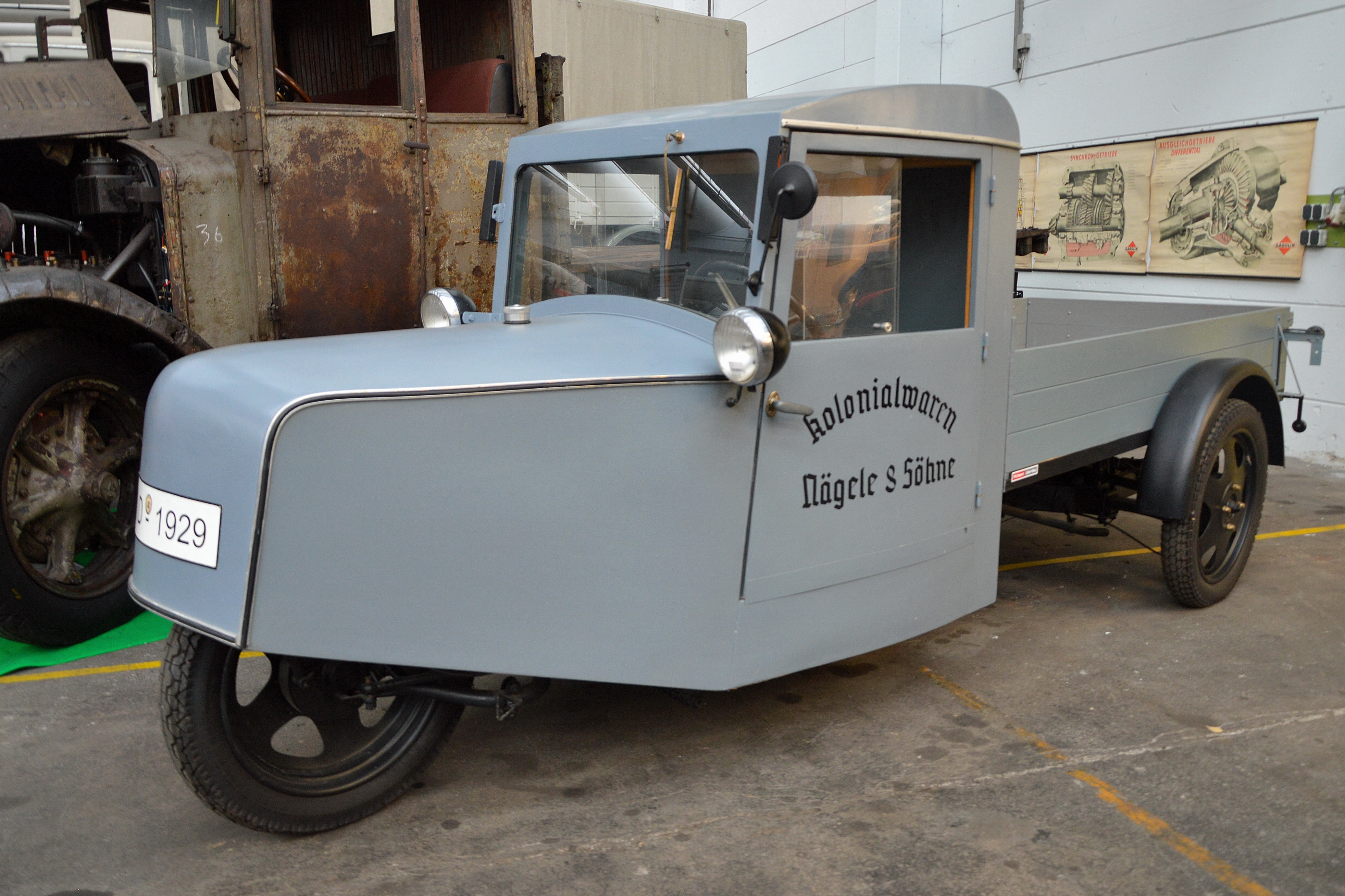 Rollfix Hamburg. Typ Heck 200. V-max: 40 km/h, 5 hp, 192 cm³